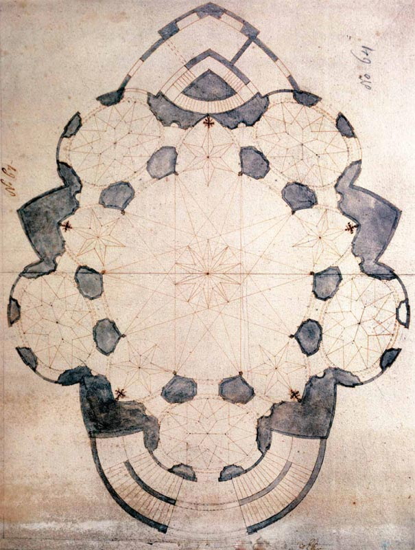 Original drawing of Pilgrimage Church of Saint John of Nepomuk on Zelená Hora in Žďár nad Sázavou by Jan Santini Aichel